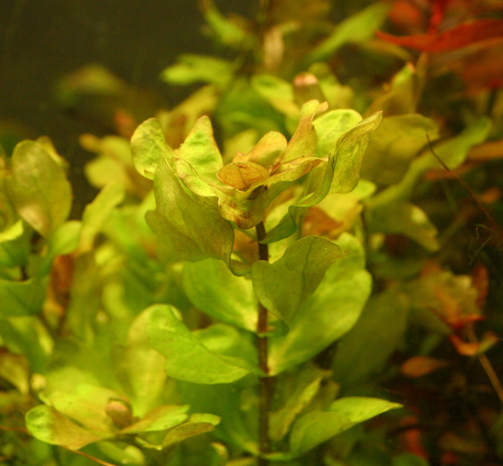 Mexican Oak Leaf plant, Shinnersia rivularis, in aquaria.